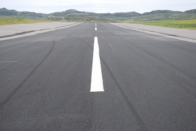 Colonsay's new runway